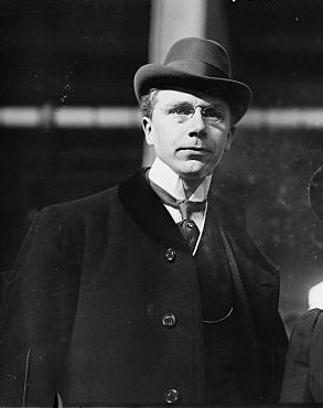 Richard Hageman (1882-1966), composer, pianist, conductor, and actor